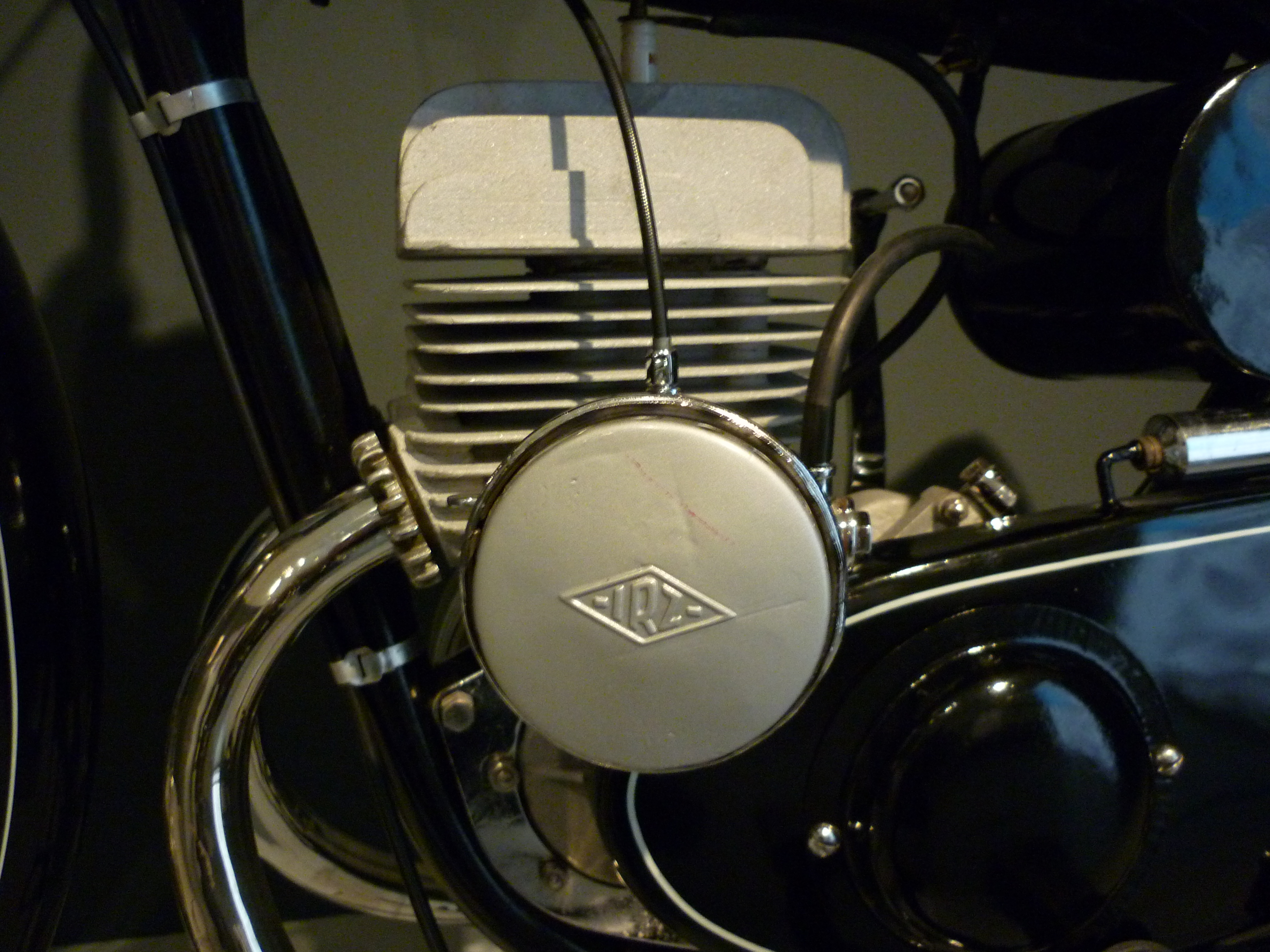 Montesa B-46/49 125cc engine and carburator (IRZ) (1949)